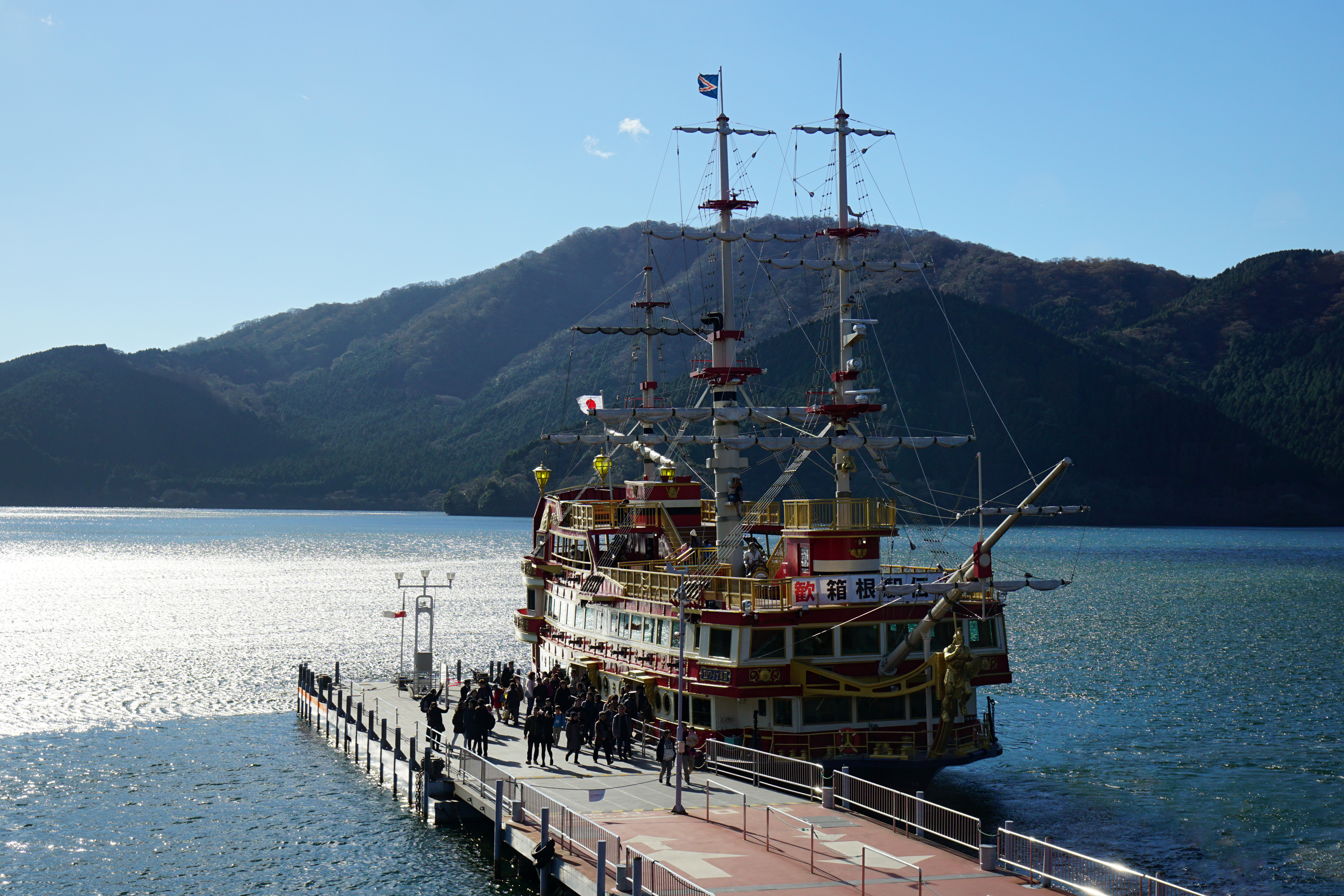 Lake_Ashi view from Togendai in Hakone Kanagawa prefecture, Japan